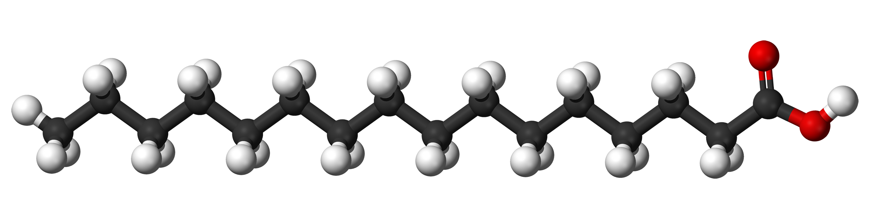 Ball-and-stick model of the palmitic acid molecule (also known as hexadecanoic acid), a saturated fatty acid with 16 carbon atoms.